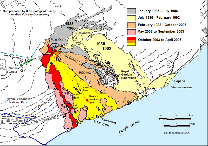 Map of the Puʻu ʻŌʻō and surrounding area. Differently coloured areas covered by lava flows of different time periods from January 1983 until April 2006.